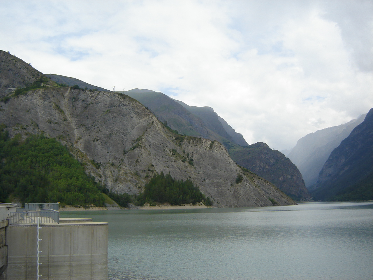 Lake Chambon (dam on the left side), Romanche valley, Isère, France